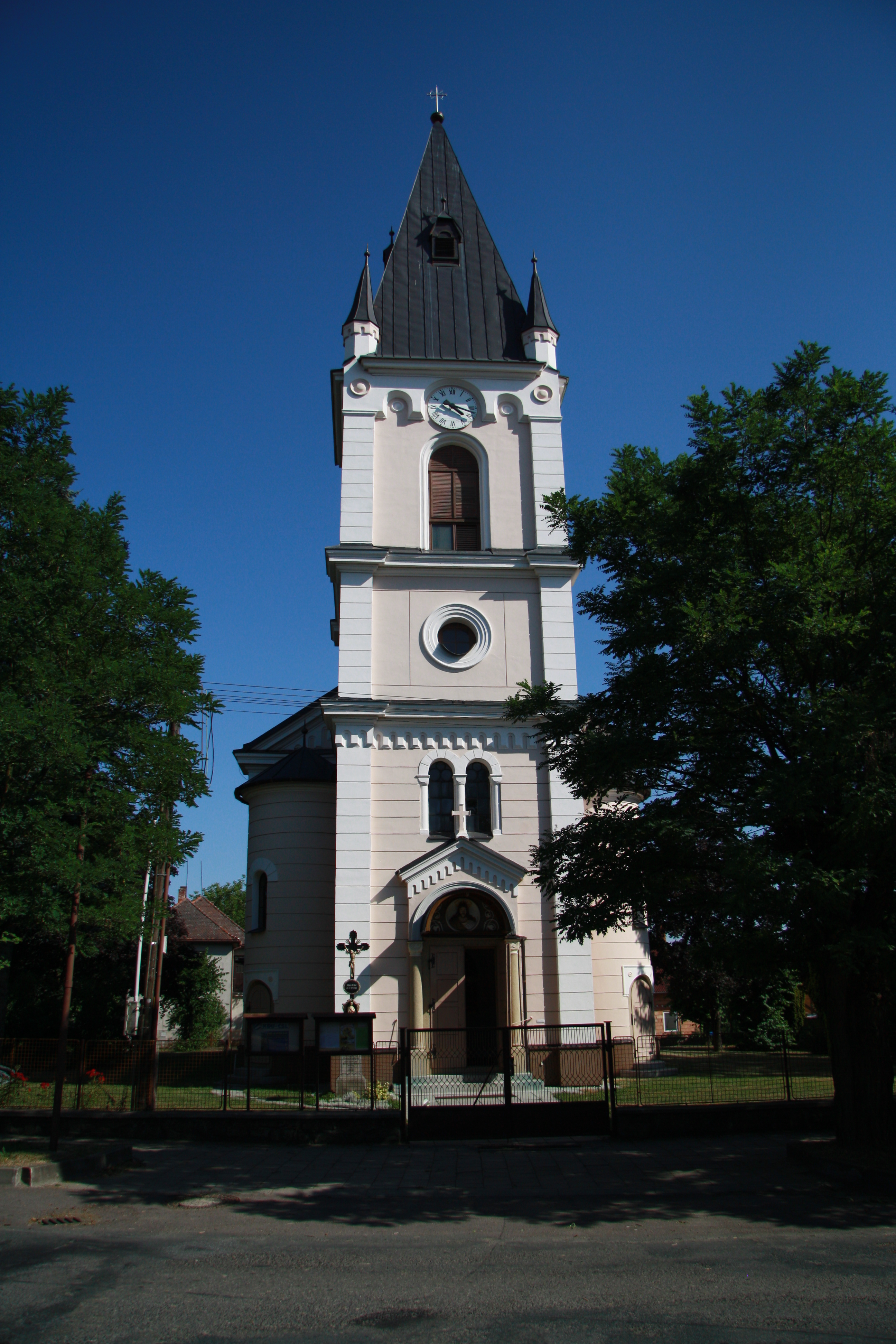 Church of Saints Cyril and Methodius in Nové Syrovice, Třebíč District.